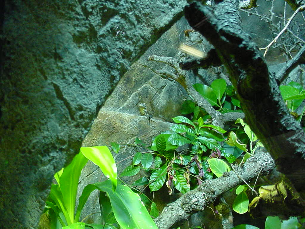 Parthenogenetic baby Komodo dragon, Chester Zoo, England, 14 July 2007 (in middle of image).